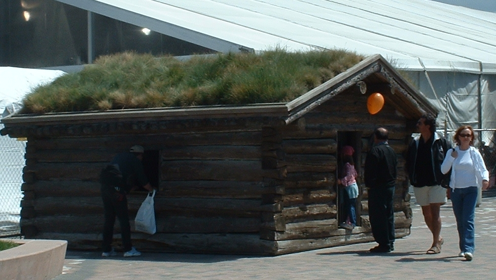 Reconstruction of Jack London's Yukon hut in Jack London Square, Oakland, California, USA. An identical cabin exists in Dawson City, Yukon, Canada. Since the original 1898 cabin, located in the Yukon wilderness, was of historical interest to both Canadians and Americans, a decision was made in the 1960s to build two identical cabins, each having half of the original logs: one to be erected in Oakland, the other in Dawson City.